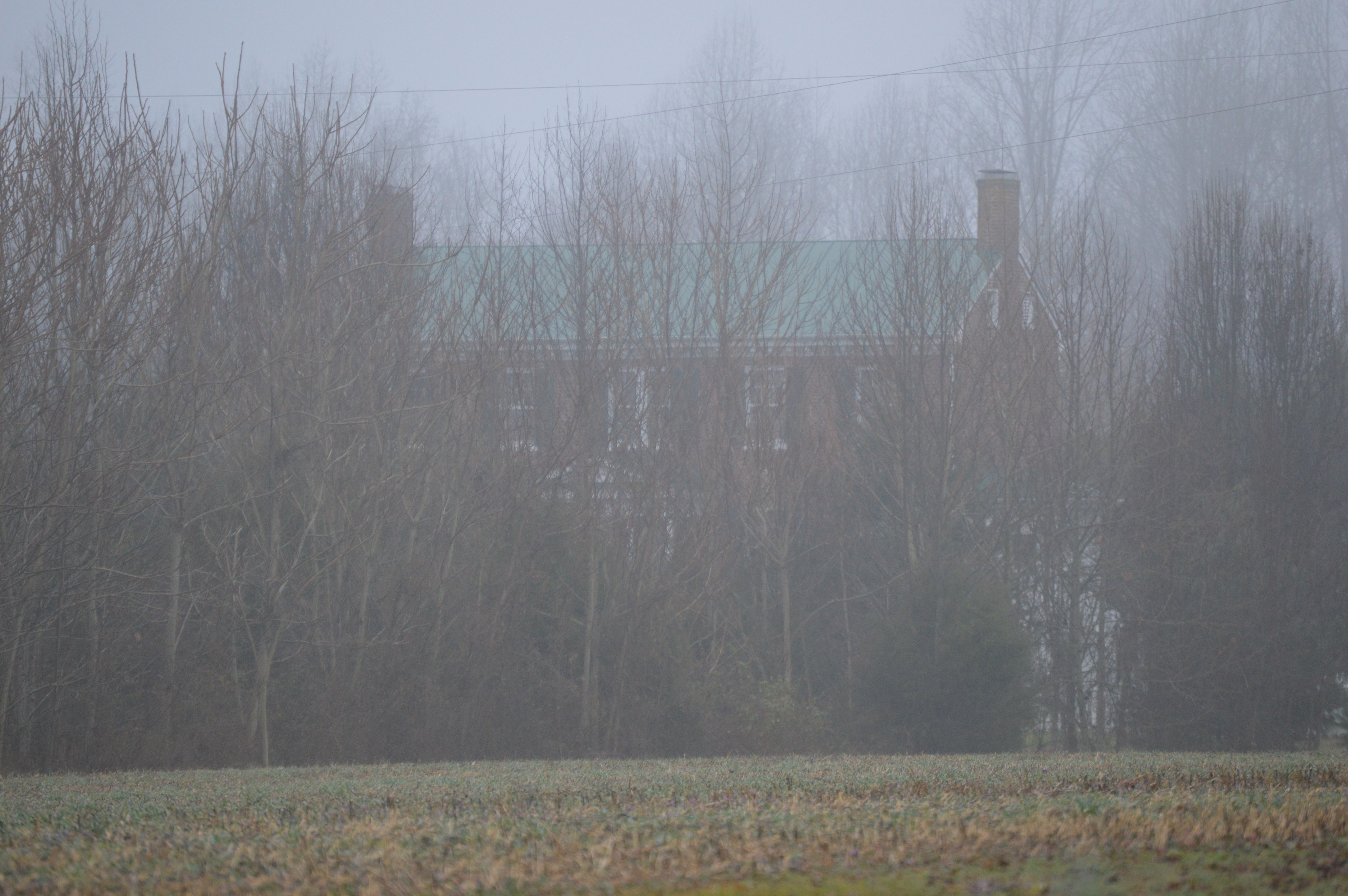 Looking through the trees toward the main farmhouse at Providence Plantation, located at 1302 Roundabout Route Road west of Newtown in King and Queen County, Virginia, United States. Built in 1826, it is listed on the National Register of Historic Places.